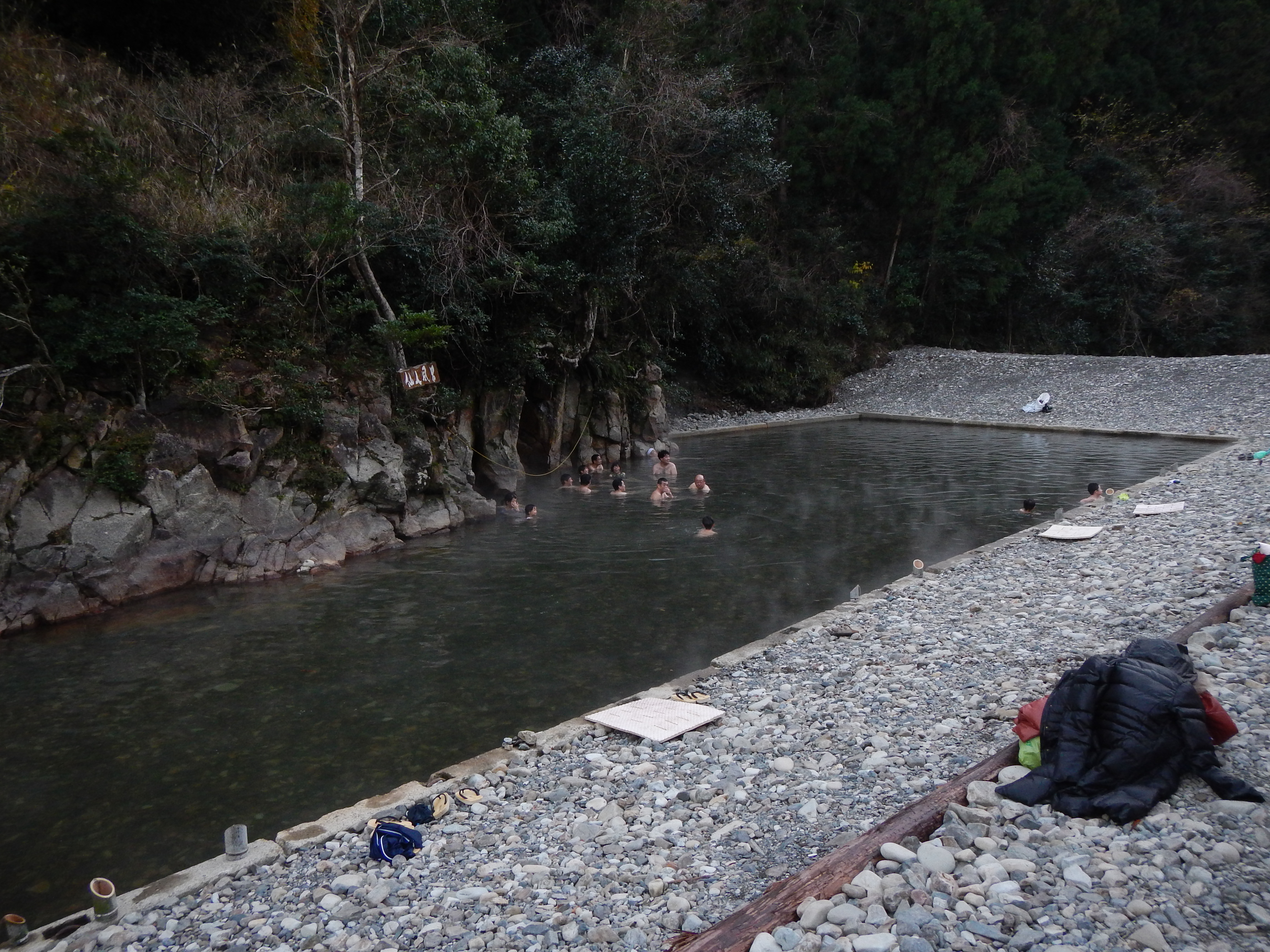 kawayu onsen3